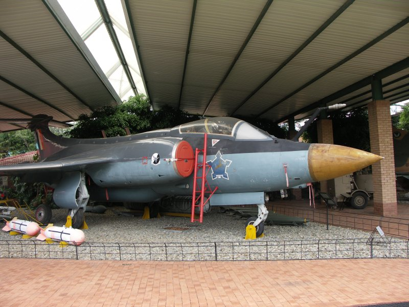 Hawker Siddeley Buccaneer S.Mk 50 no. 422 (retired) at South African National Museum of Military History.